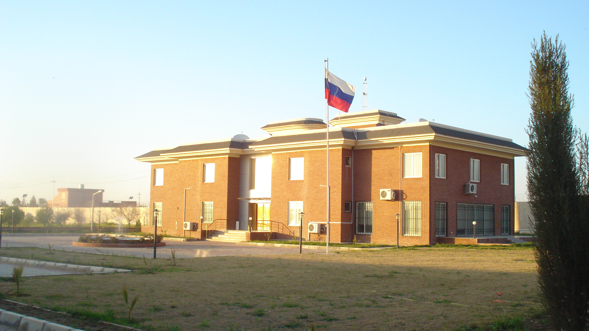 Consulate-General of Russia in Arbil